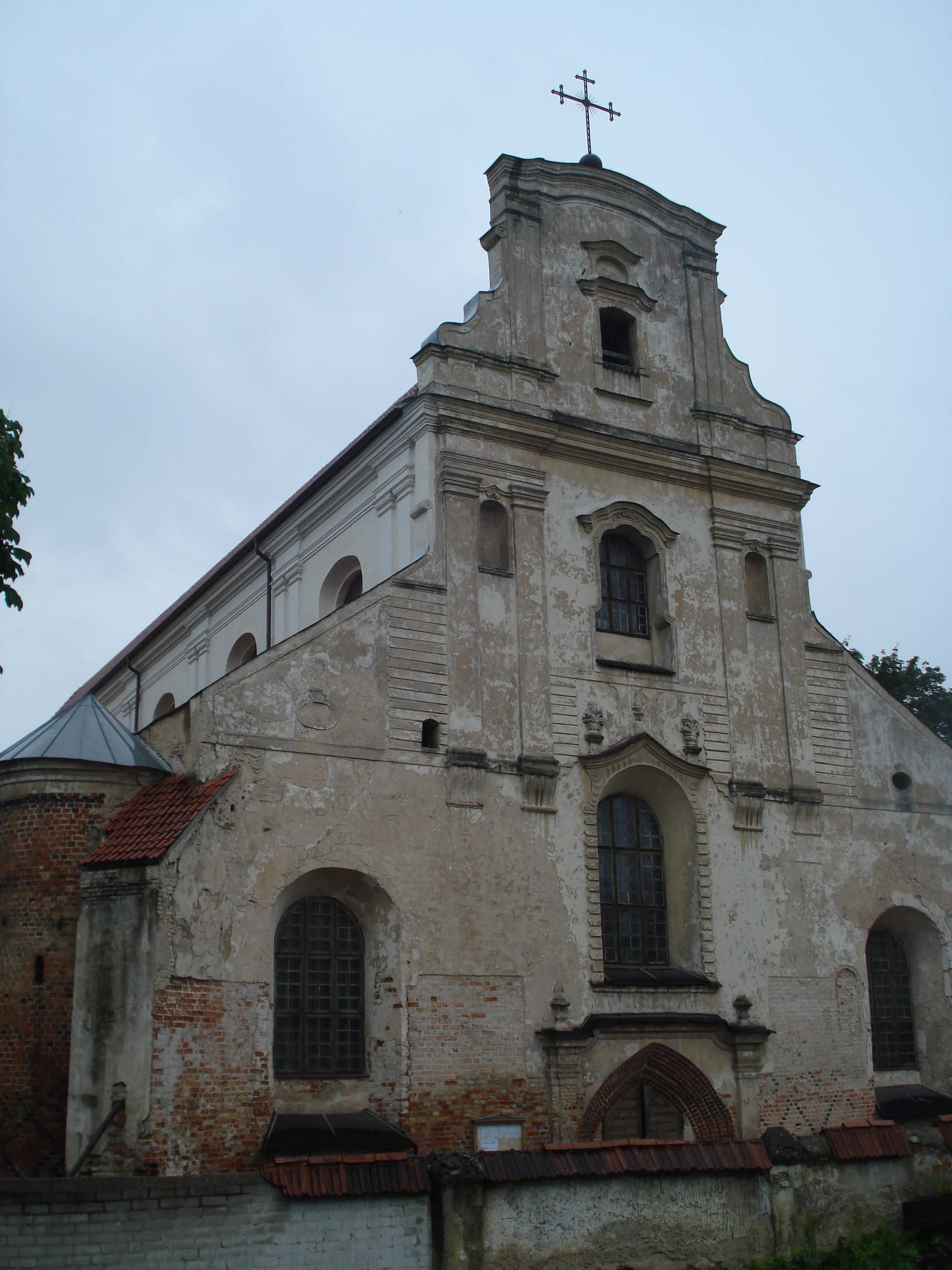 The Franciscan Church of Assumption of the Blessed Virgin Mary (pranciškonų Švč. M. Marijos Ėmimo į dangų bažnyčia). Main facade. Trakų g. 9/1